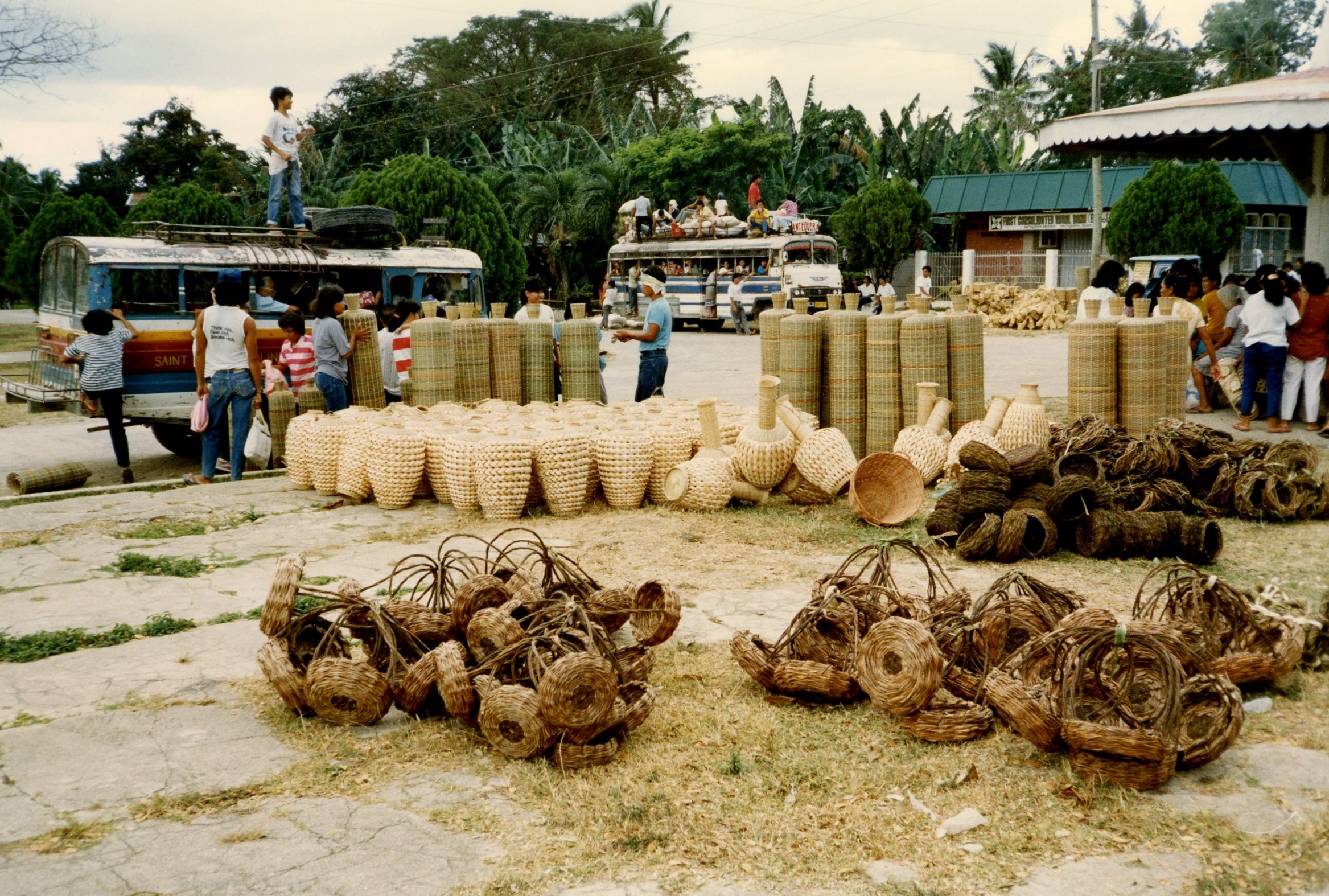 Baskets market, Antequera, Bohol, Philippines